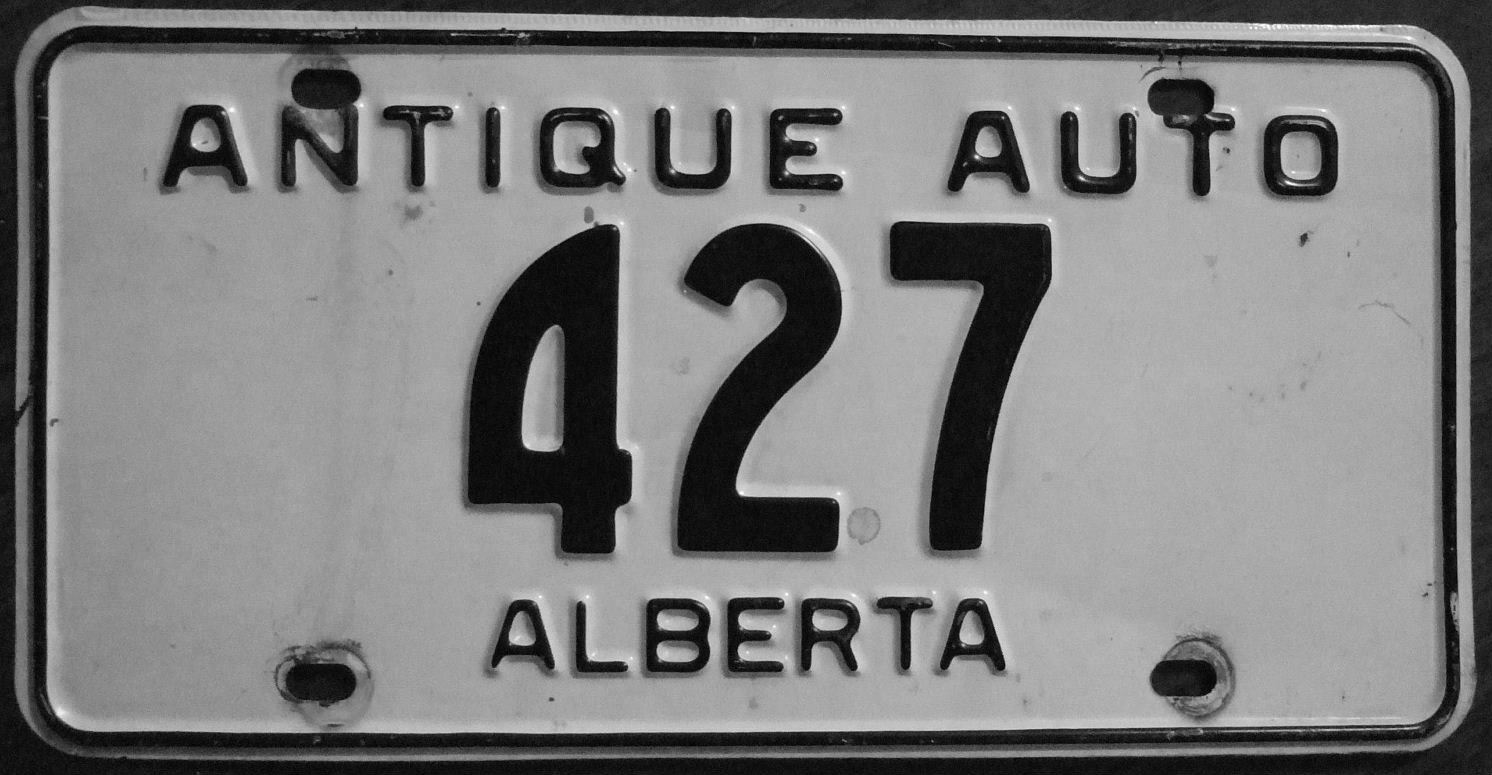 First issue Alberta Antique Auto license plate. First issued from 1963 until 1975. Older vehicles that still have this plate are still using it today, permanent plate.